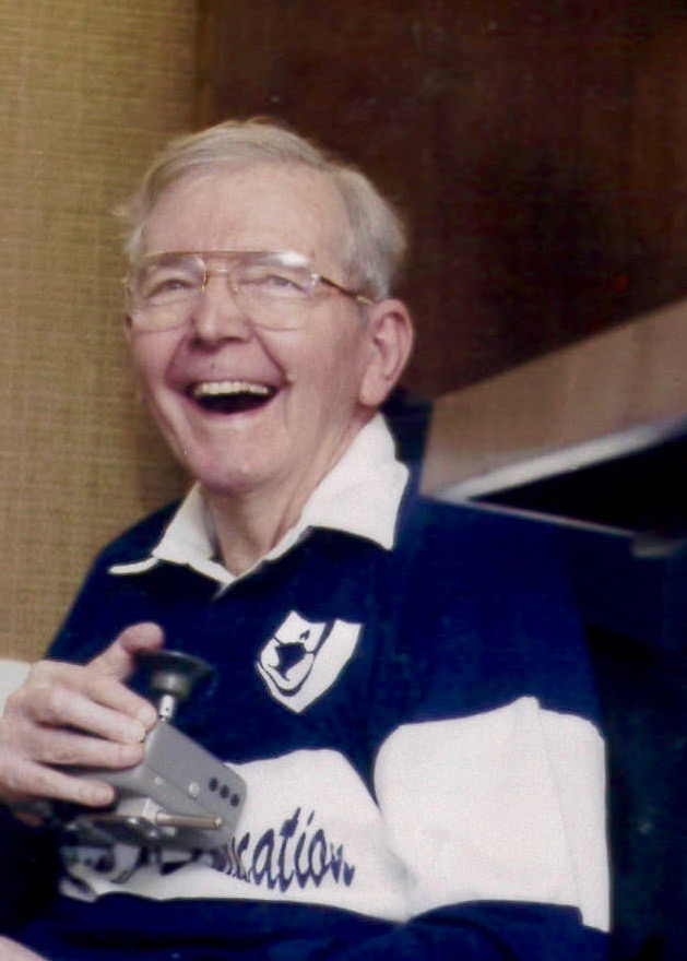 Walter Fremont (1924-2007), Bob Jones University dean and seminal figure in the American Christian school movement